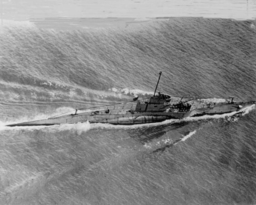 United States Navy submarine